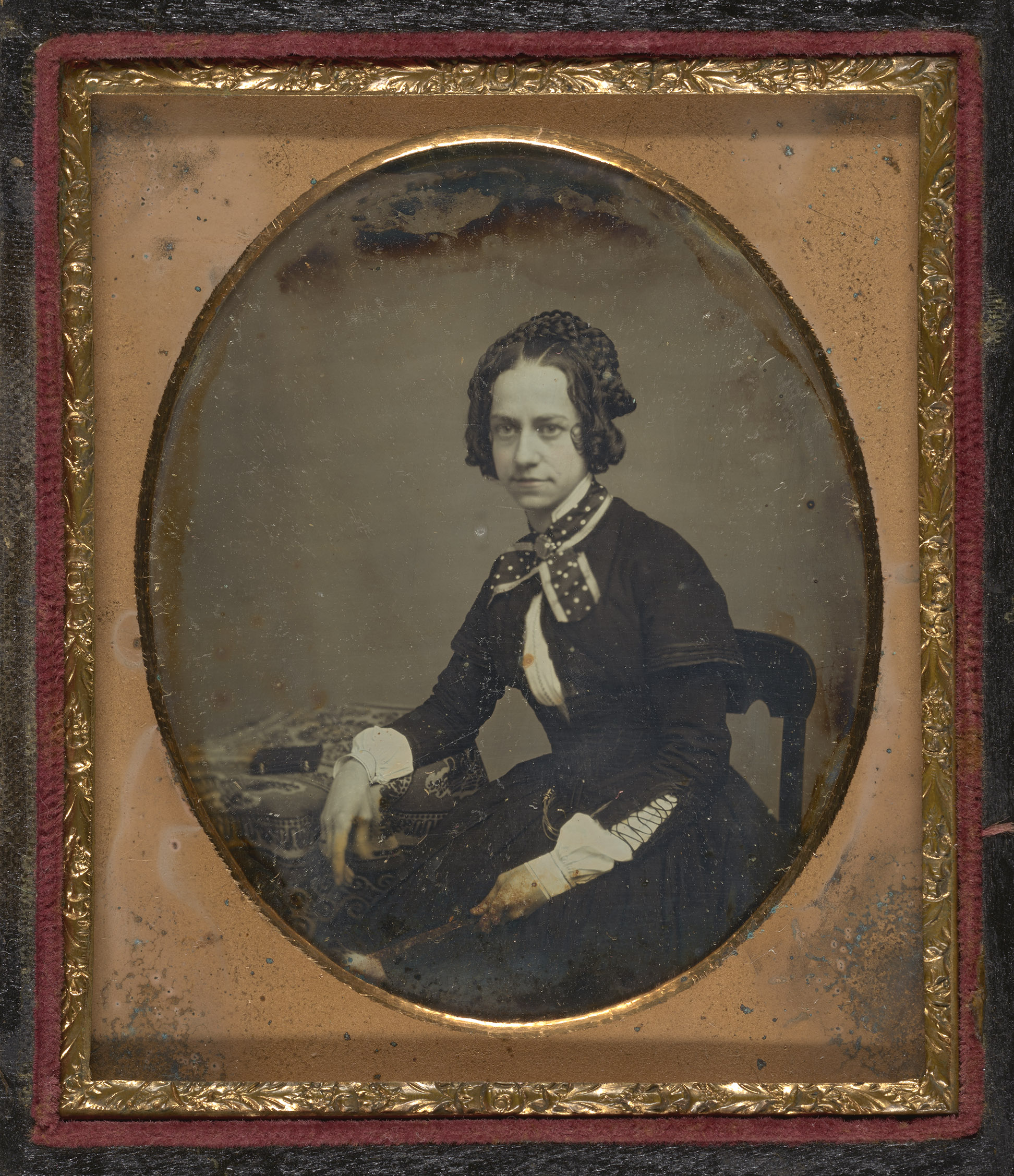 Unknown photographer [Sarah Ann Lillie Hardinge], ca. 1850, Daguerreotype with applied color, sixth-plate‚ Amon Carter Museum of American Art, Fort Worth, Texas, Gift of Mrs. Natalie K. Shastid‚ P1988.26